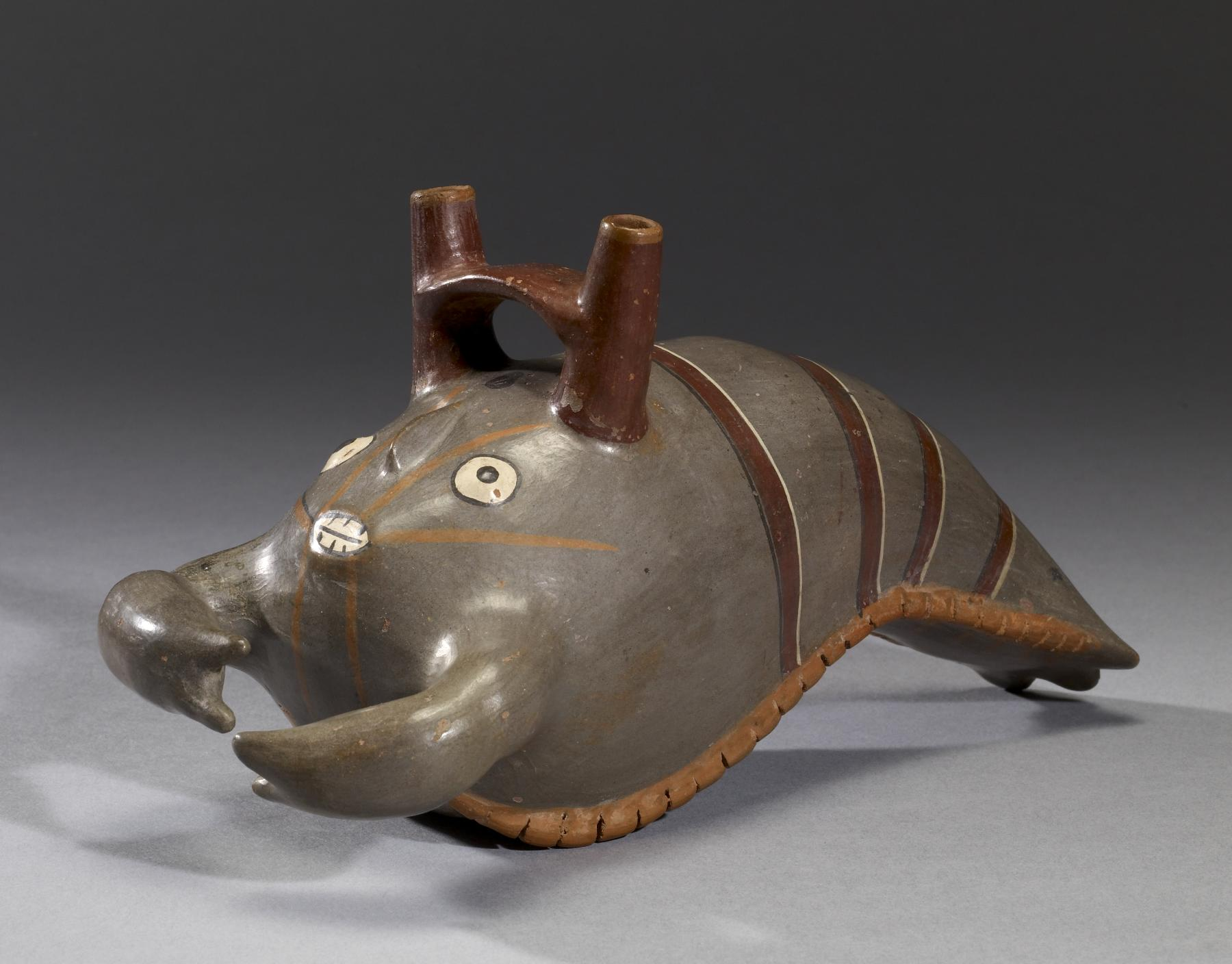 The coast of Peru is bathed in the Humboldt Current, which sweeps cold water from the Antarctic along the South American coast and northwards to Mexico and the Pacific Northwest. Rich in plankton and other marine animals, the Humboldt Current supports one of the world's most fertile fishing grounds. Early Andean peoples harvested its bounty, with fish and shellfish being a primary source of protein not only for coastal peoples but also those in the highlands. This lobster effigy vessel, with its small bridge-spout handle typical of Nasca ceramics, is a masterful example of the ceramic effigy vessel form.